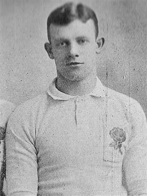 Photo of Percy Stout, English international rugby union player